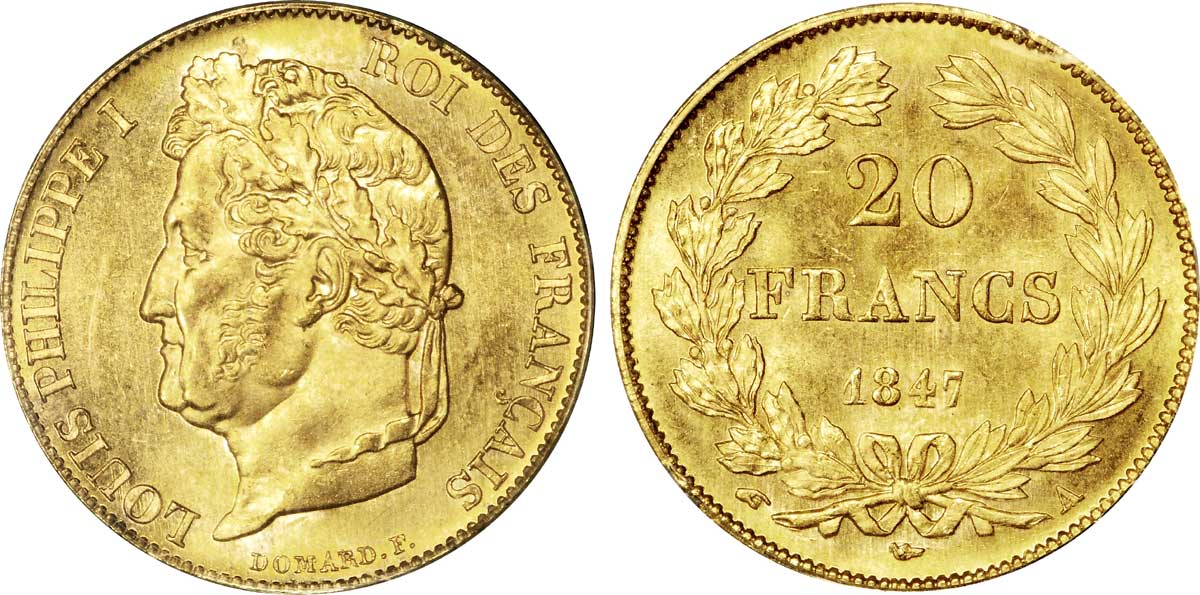 20 francs or Louis-Philippe, 1847